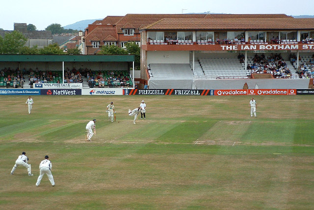 The County Ground, Taunton; Somerset County Cricket Club playing Hampshire